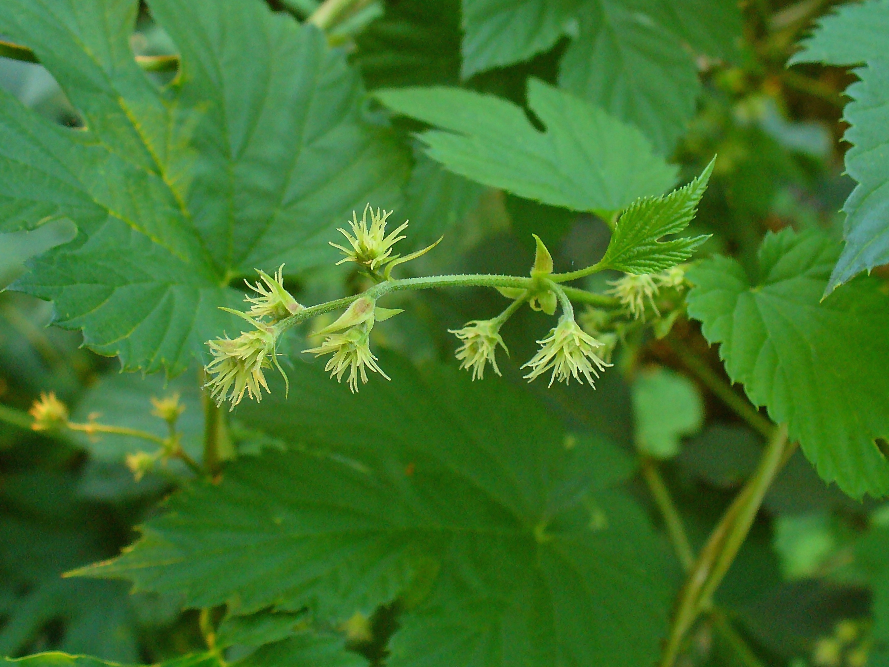 Common Hop, female inflorescences; Karlsruhe, Germany.